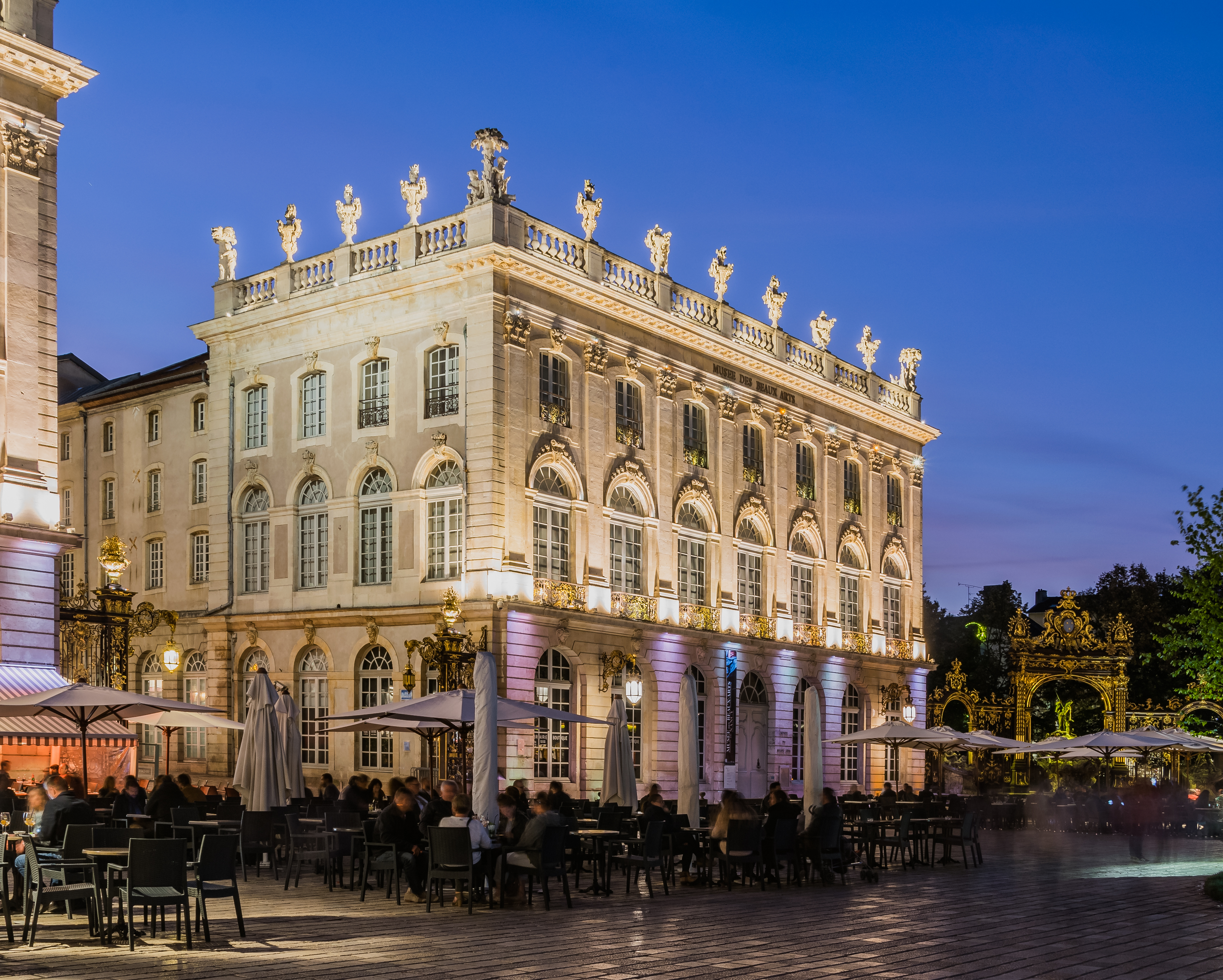 Building of the Musée des Beaux-Arts de Nancy, Meurthe-et-Moselle, France .